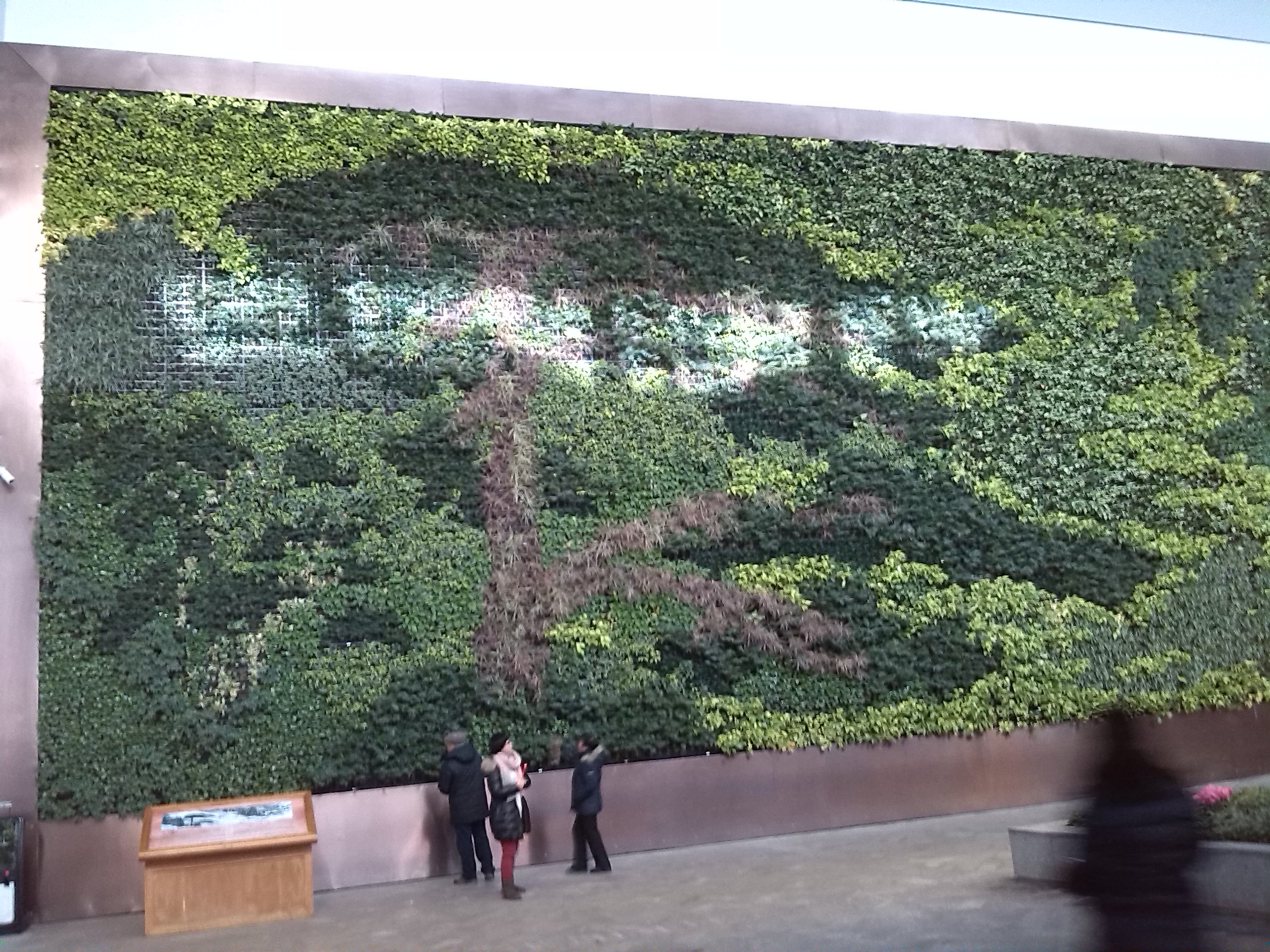 This wall is entirely decorated with real flowers. The flowers with green leaves grows on the wall. It offers fresh air in the day.